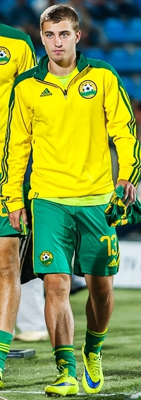 Denis Yakuba